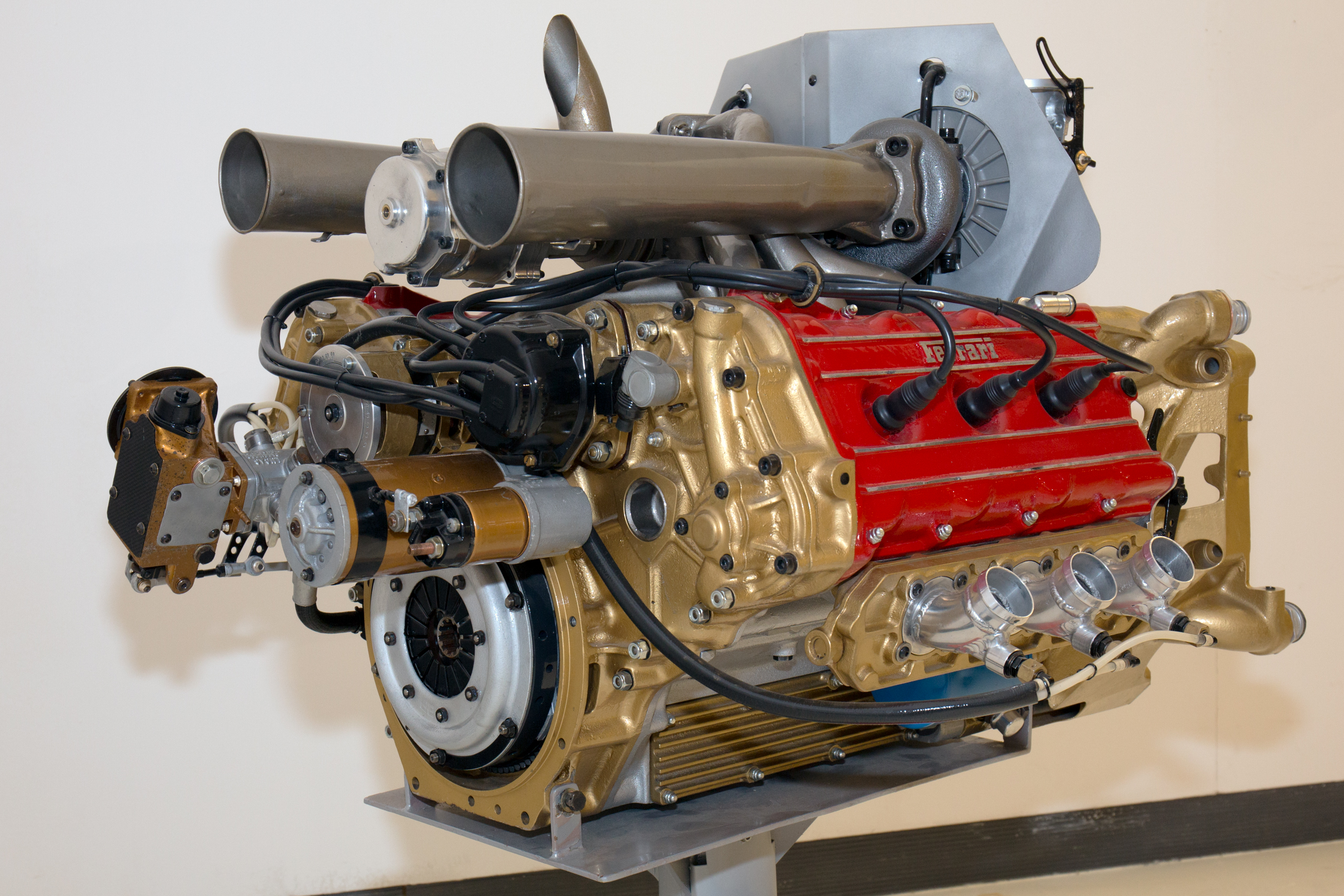 Ferrari Tipo 021 engine (1981) of the Ferrari 126CK